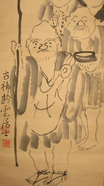 Unkyo Miura's self-portrait at the age 70, 1900.